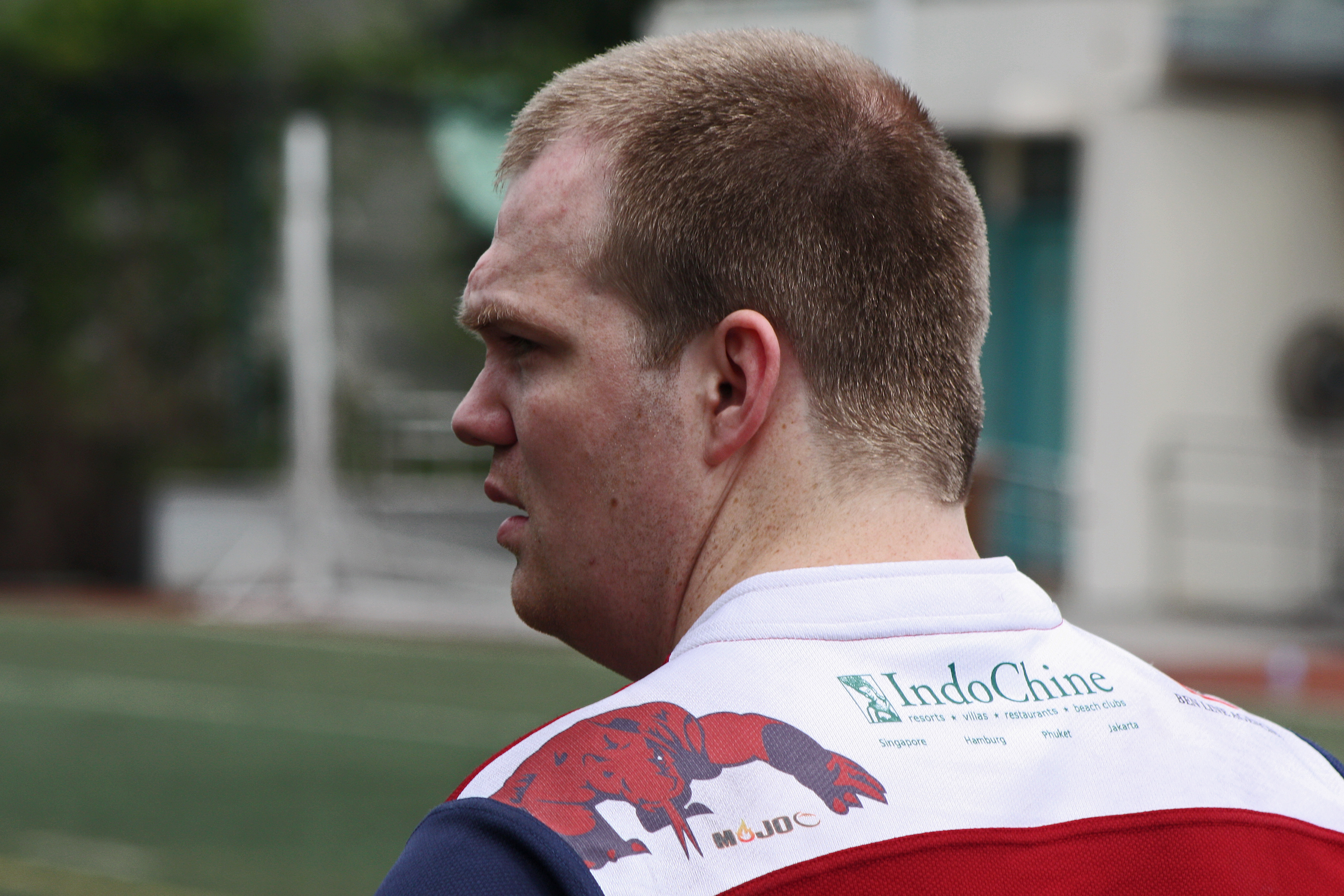 Image of a Rugby player taken at Kowloon RugbyFest 2012, King's Park, Ho Man Tin, Kowloon. He has a pronounced supraorbital ridge.